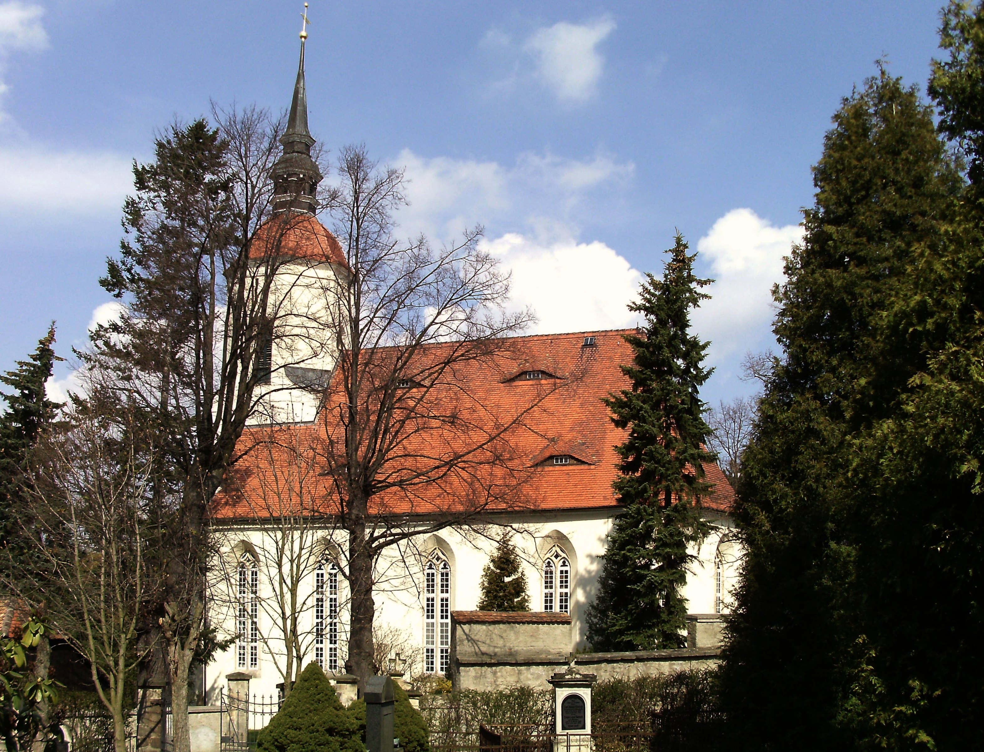 Bertsdorf Church (Bertsdorf-Hörnitz, Görlitz district, Saxony)